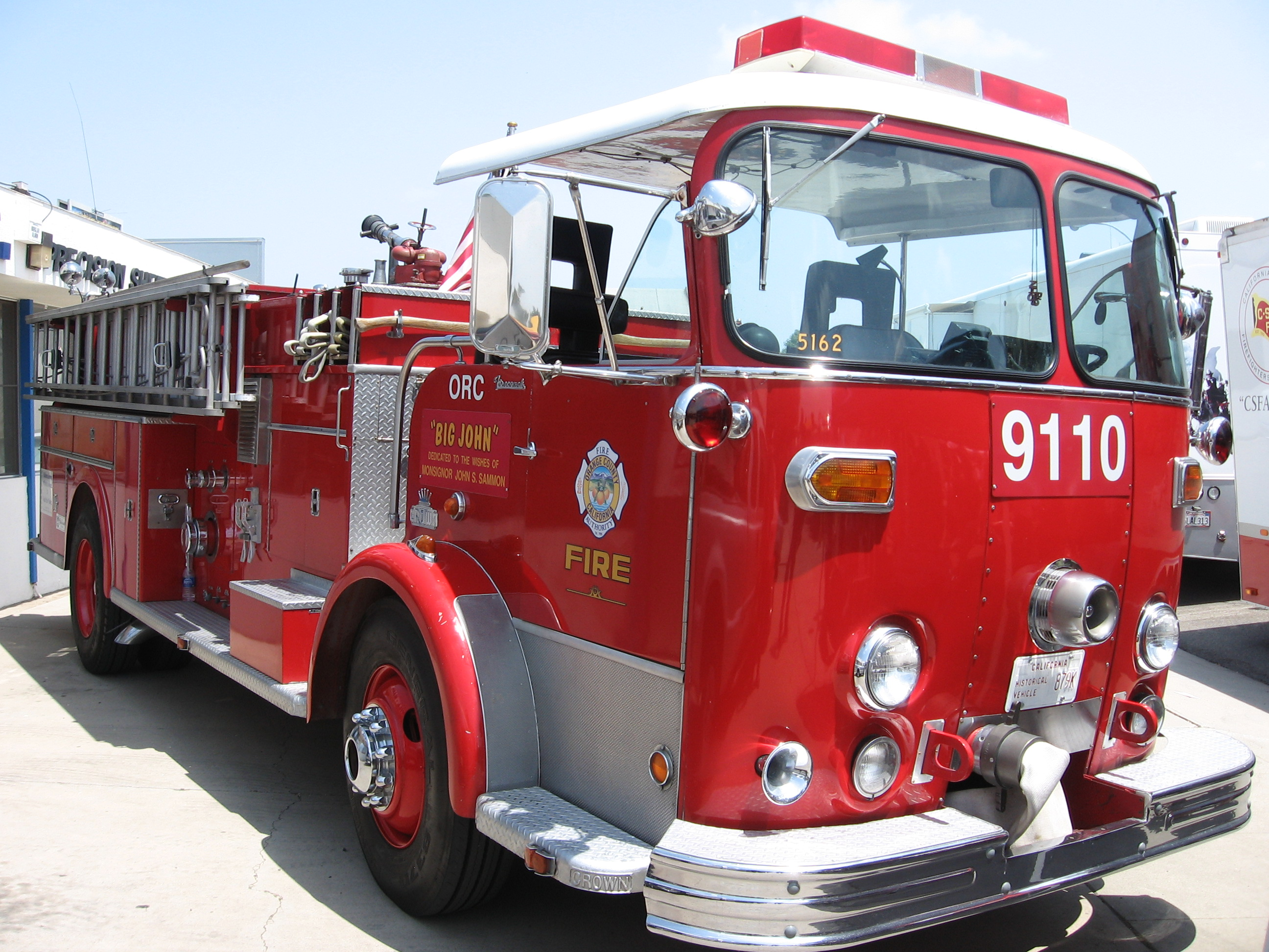 Crown Coach Corporation Firecoaches